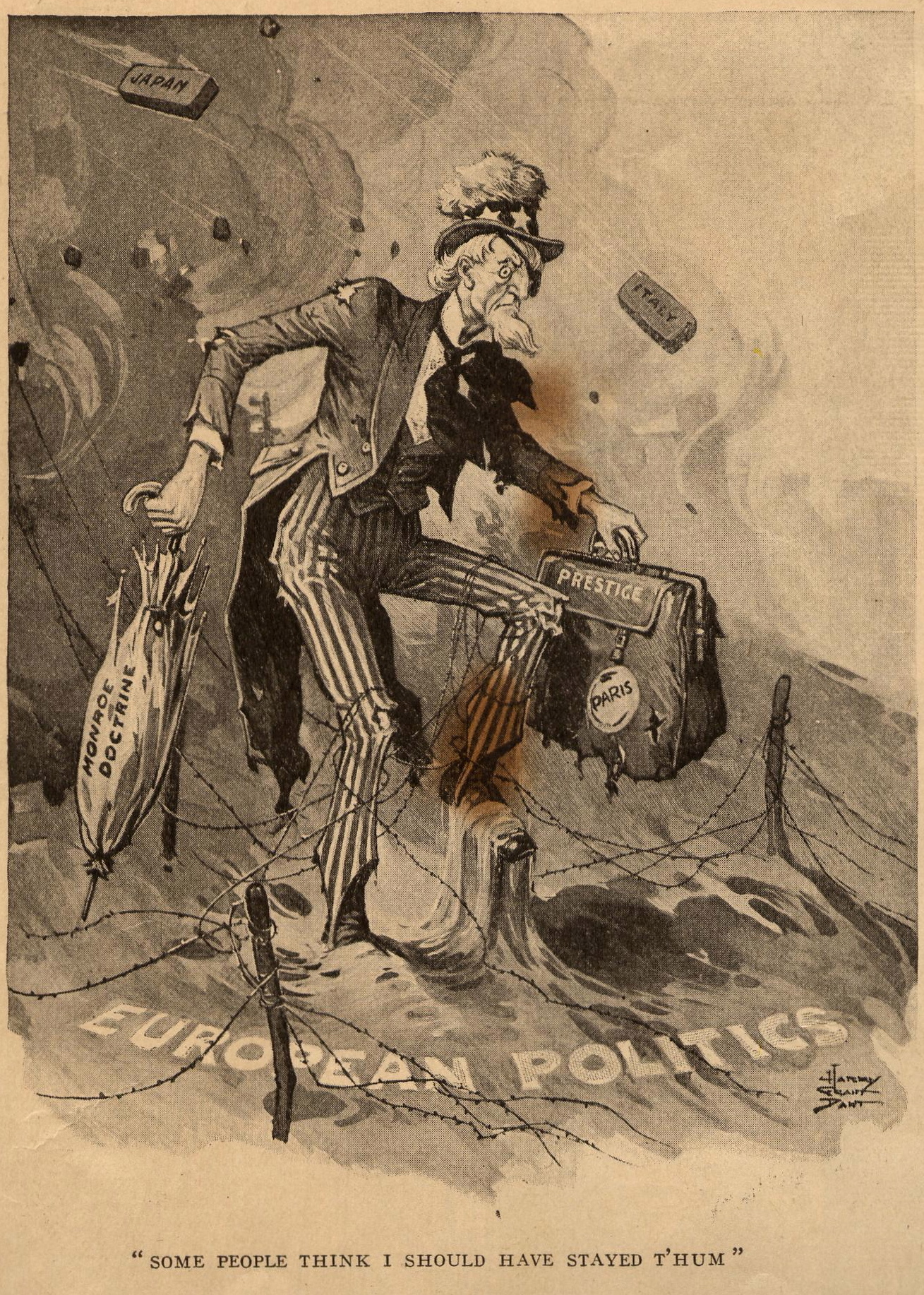 1919 Editorial cartoon showing Uncle Sam battered from entanglements in European politics. "Some People Think I Should Have Stayed T'Hum" (slang pronounciation; "stayed at home".)